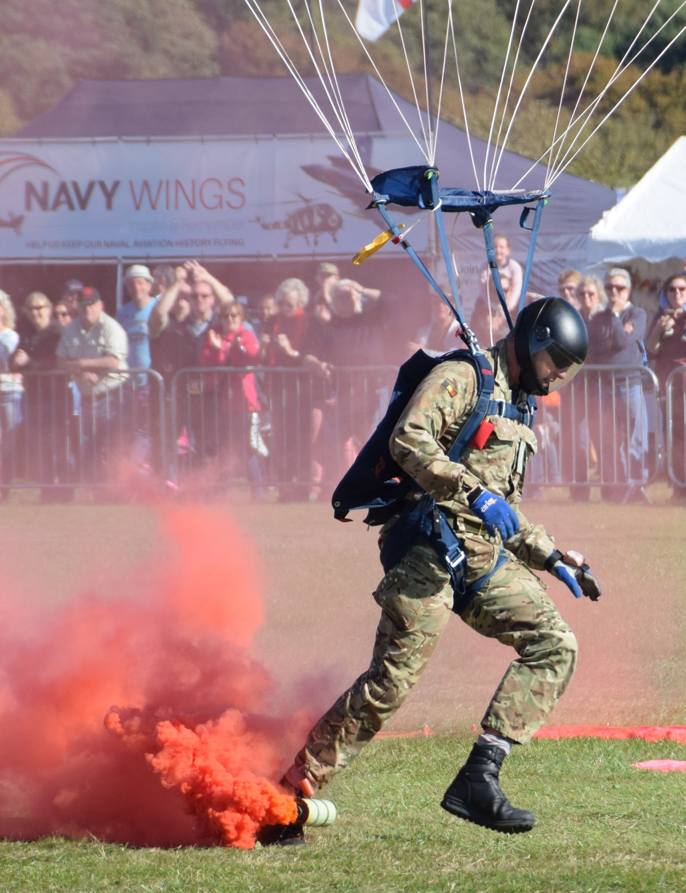 Red smoke from a container on the leg of a parachutist of the UK Lightning Bolts Army Parachute Display Team at the Cotswold Airport Revival Festival, Gloucestershire, England.